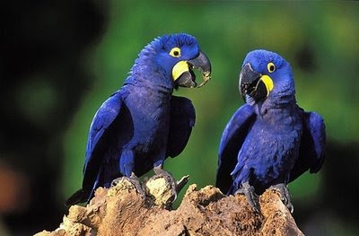 Hyacinth Macaw (Anodorhynchus hyacinthinus)